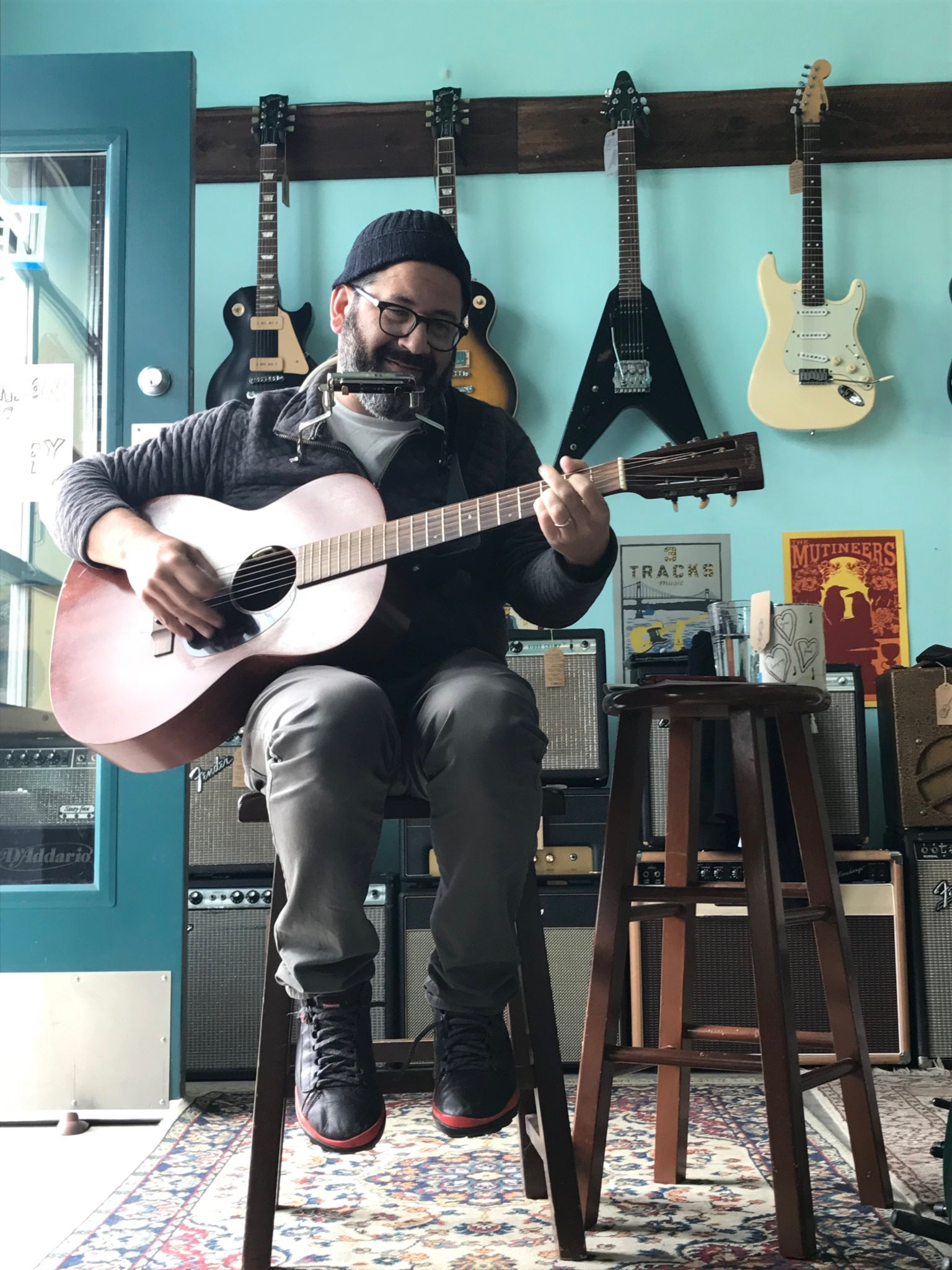 Jeff London performing